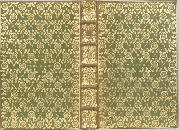 A book bound 1886 by Thomas James Cobden-Sanderson for Clementine Mitford as a gift for her husband Bertram Mitford. The book is The Princess (1847) by Lord Alfred Tennyson (1809-1892) Comments to the quality of the binding : The binder's notes observe that "the design of back-side varies from front. The 'M' is inverted in the lower half [of the back]. This, an accident, [is] a great improvement. Time 54 3/4 hours. Undercharged." (1) − "... a superstar binding in all ways - it is being offered for $65,000." Boktryst, A Nest for Book Lovers, 2011